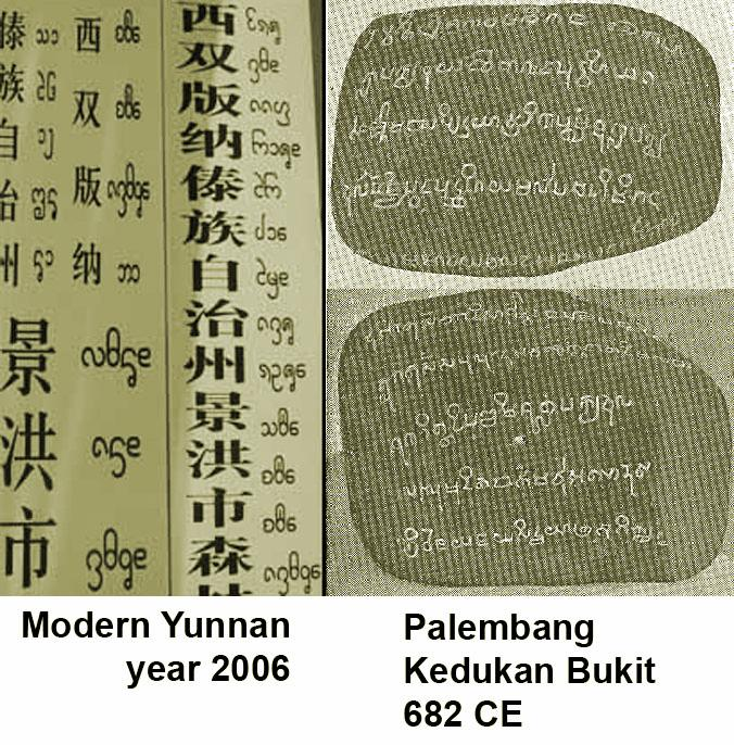 Doorframe of Yunnan 2006 and ancient Malay text found at Palembang's Kedukan Bukit 682CE.